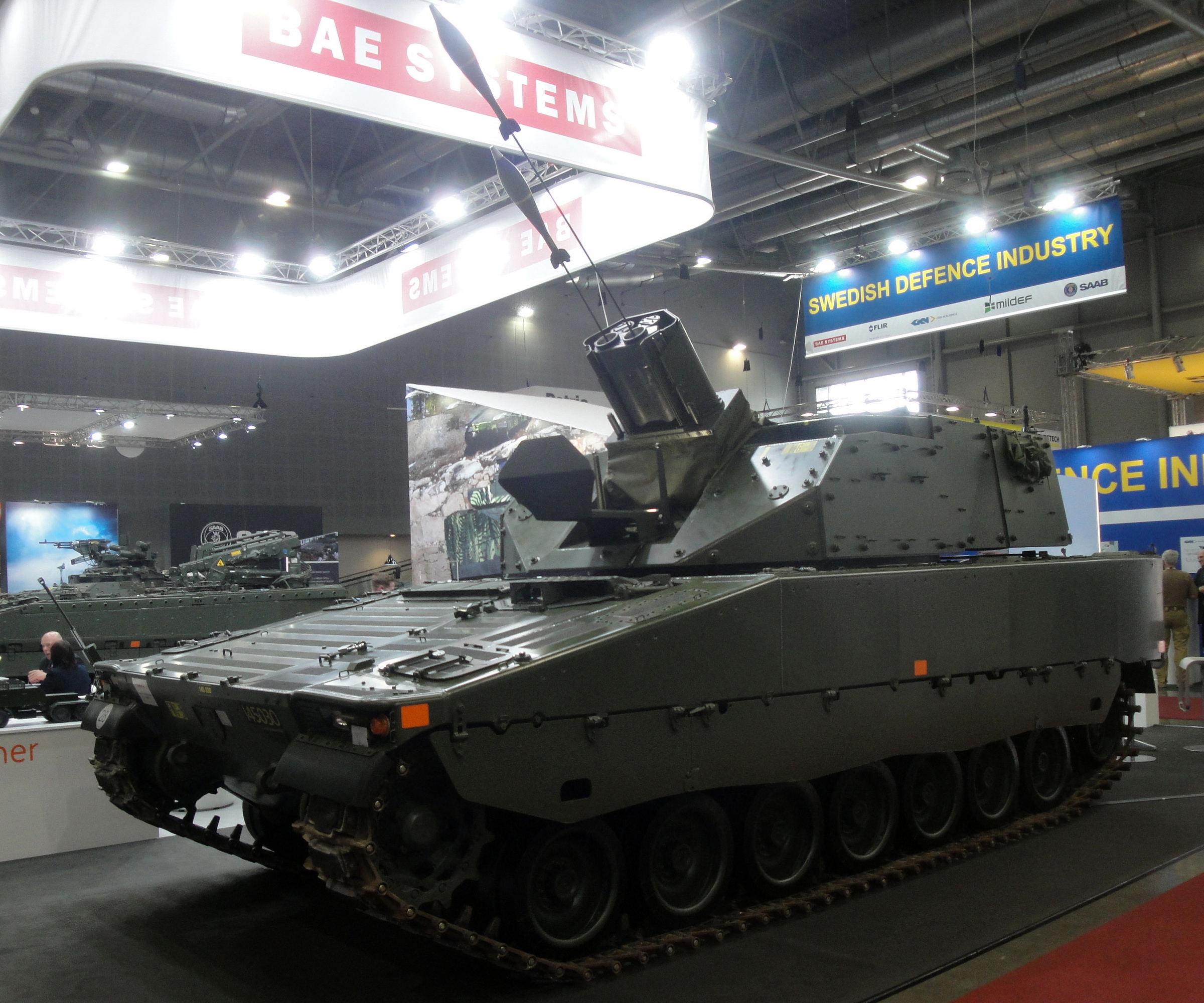 Granatkastarpansarbandvagn (Grkpbv) 90 with grenade launcher Mjölner, IDET/PYROS/ISET 2019, Brno